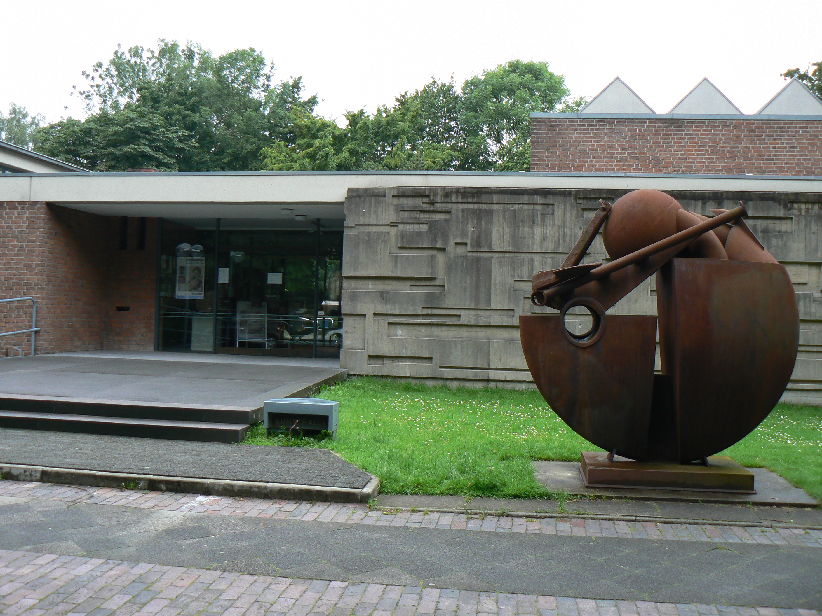 Kunsthalle and sculpture Leonard Wübbena in Wilhelmshaven/Germany